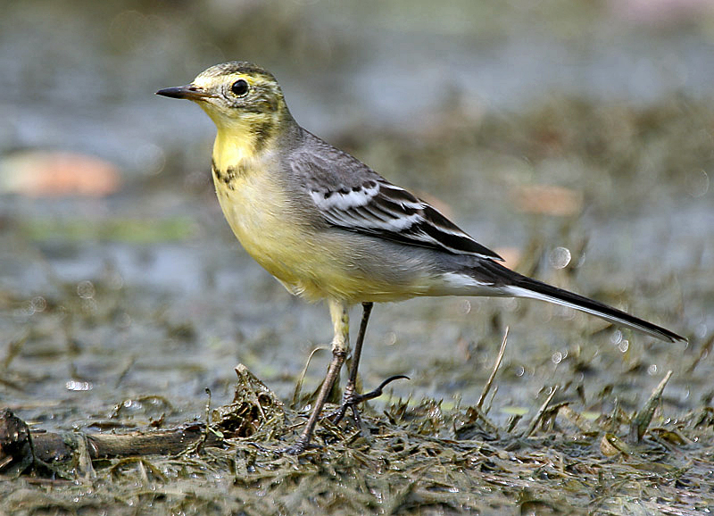 Citrine Wagtail Motacilla citreola in Kolkata, West Bengal, India.